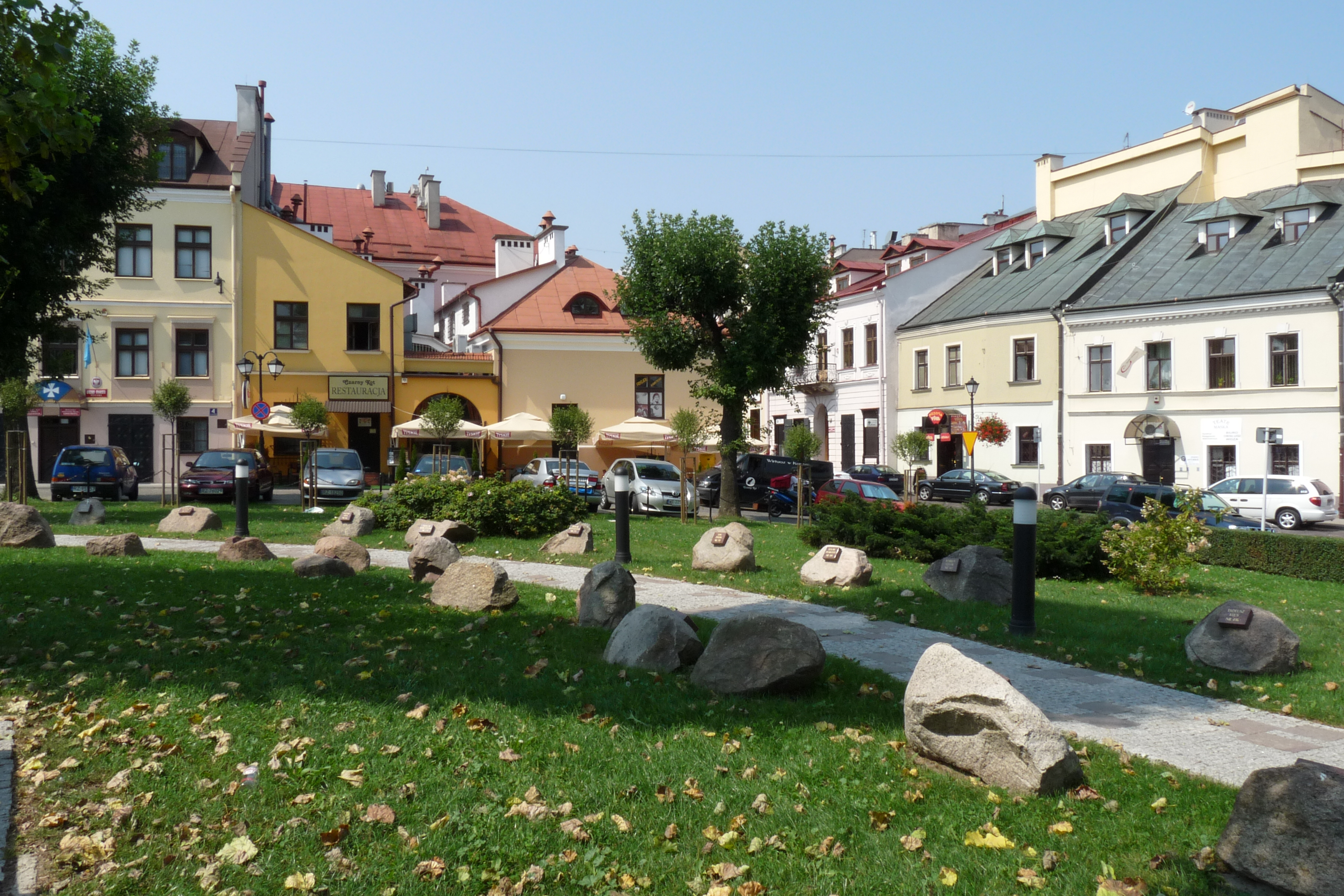 Cichociemni Square in Rzeszów